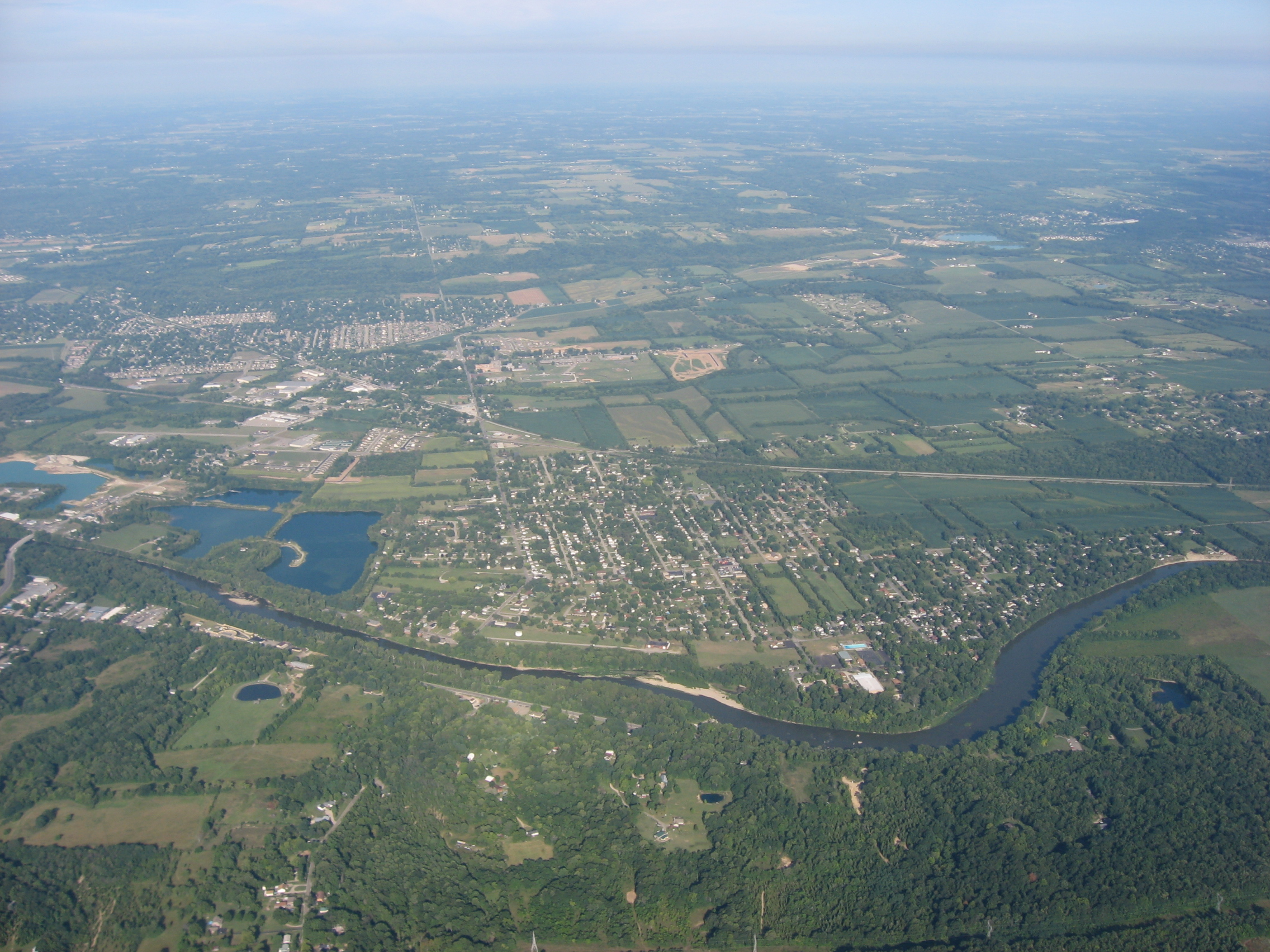 Aerial view of Chautauqua, an unincorporated community split between Montgomery and Warren counties in the southeastern part of the U.S. state of Ohio. The Great Miami River is plainly visible in the foreground. Picture taken from a Diamond Eclipse light airplane at an altitude of 4,580 feet MSL and a bearing of approximately 343º.